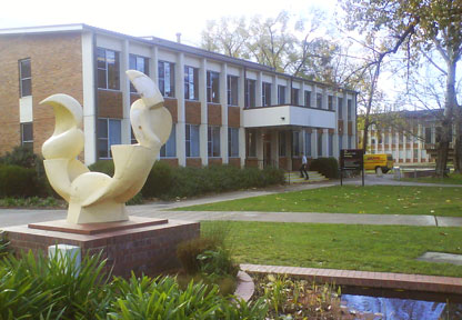 Centre for the Public Awareness of Science at the Australian National University in Canberra. With "Argo" sculpture by Mark Grey-Smith (1987). Taken by author, Guy Micklethwait.